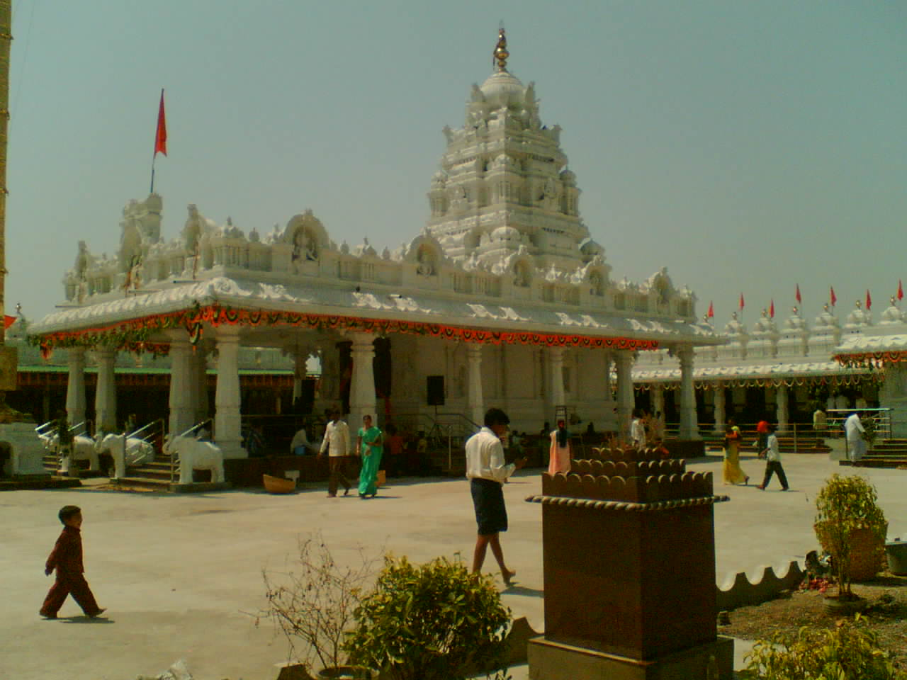 "Screen shot of Great Shivalayam Temple"